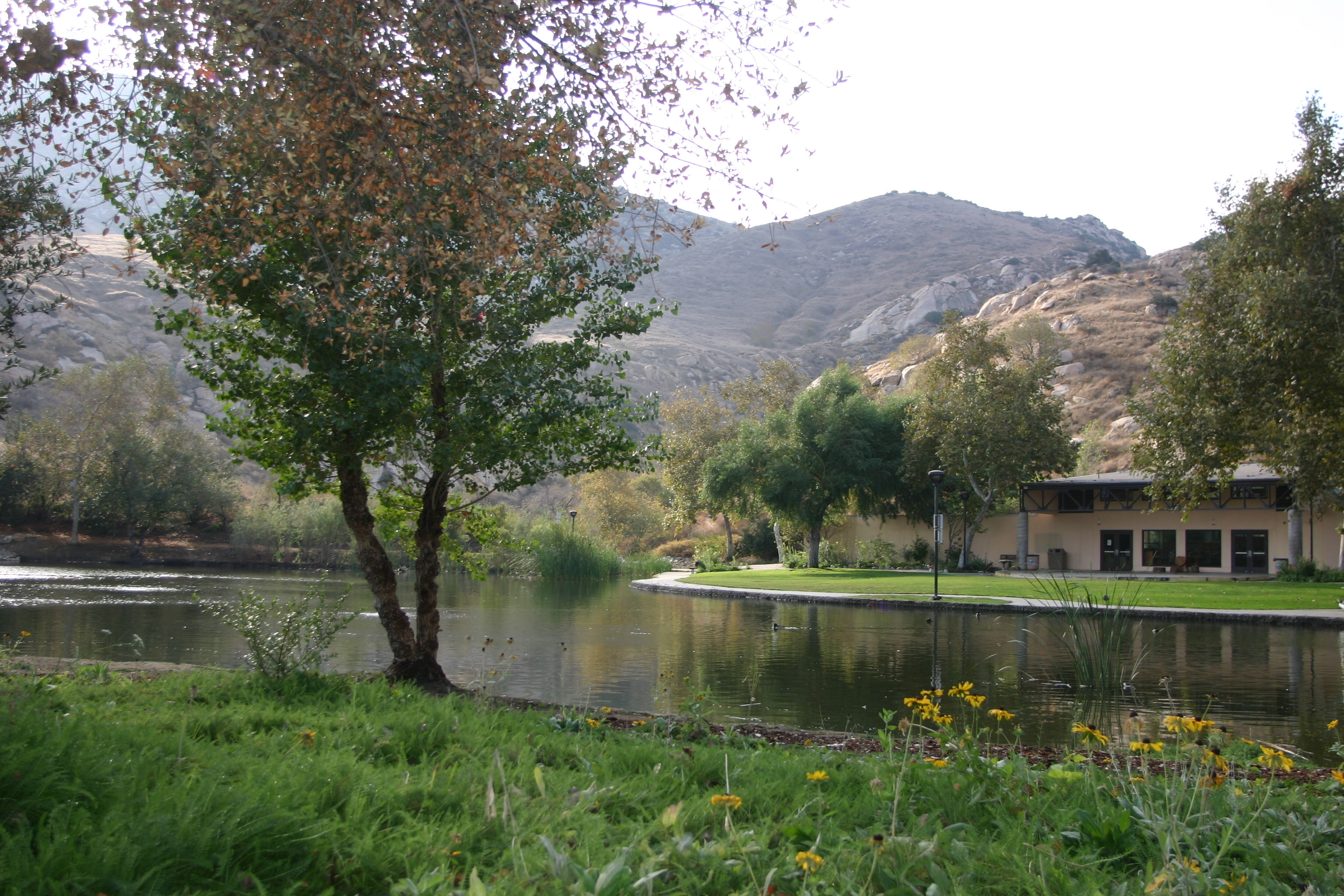 Mary Vagle Nature Center Outside Pond